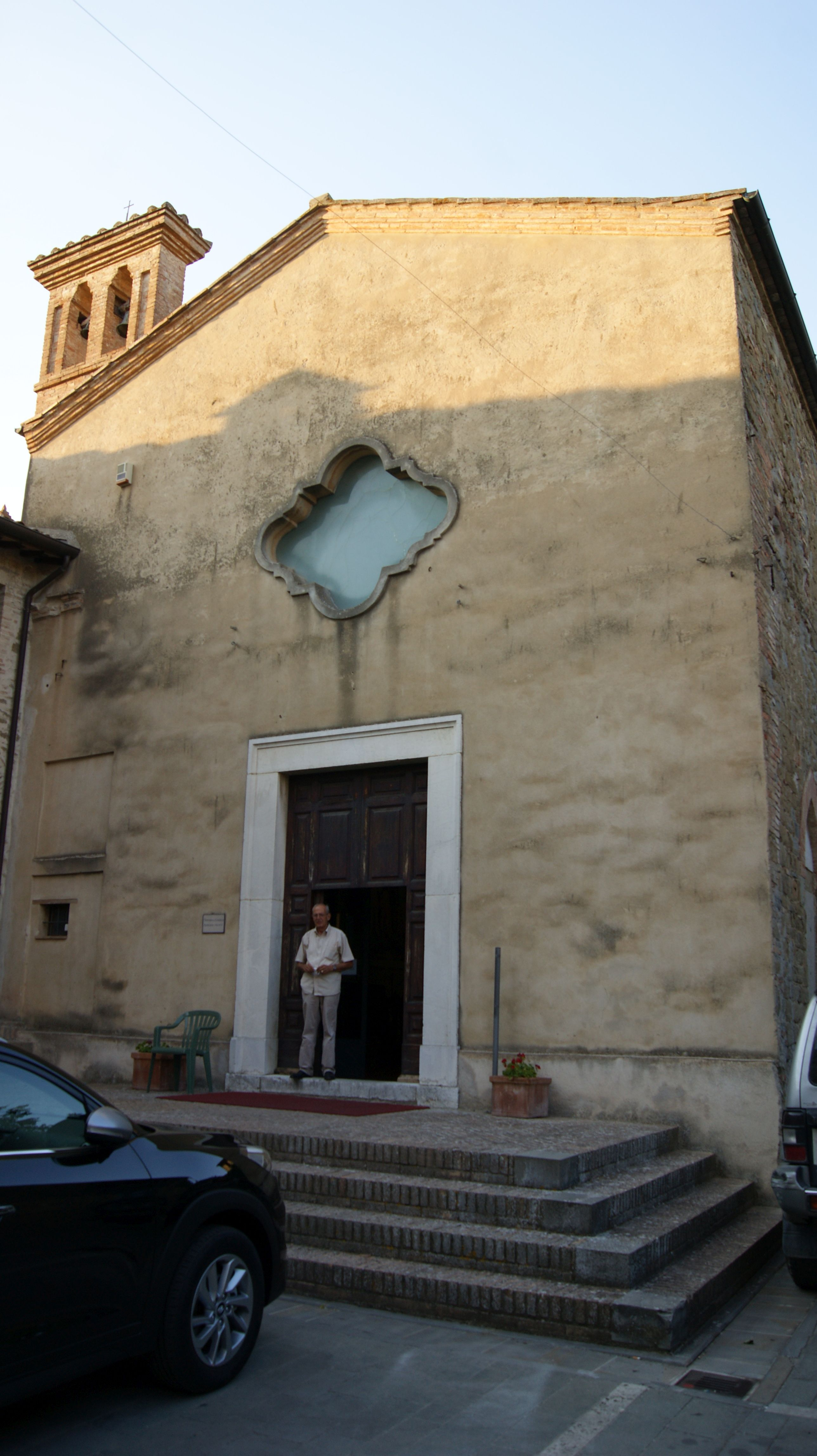 Bettona, Italy. Oratory San Andrea.